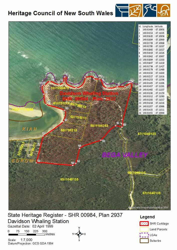 Davidson Whaling Station: SHR Plan No 2937